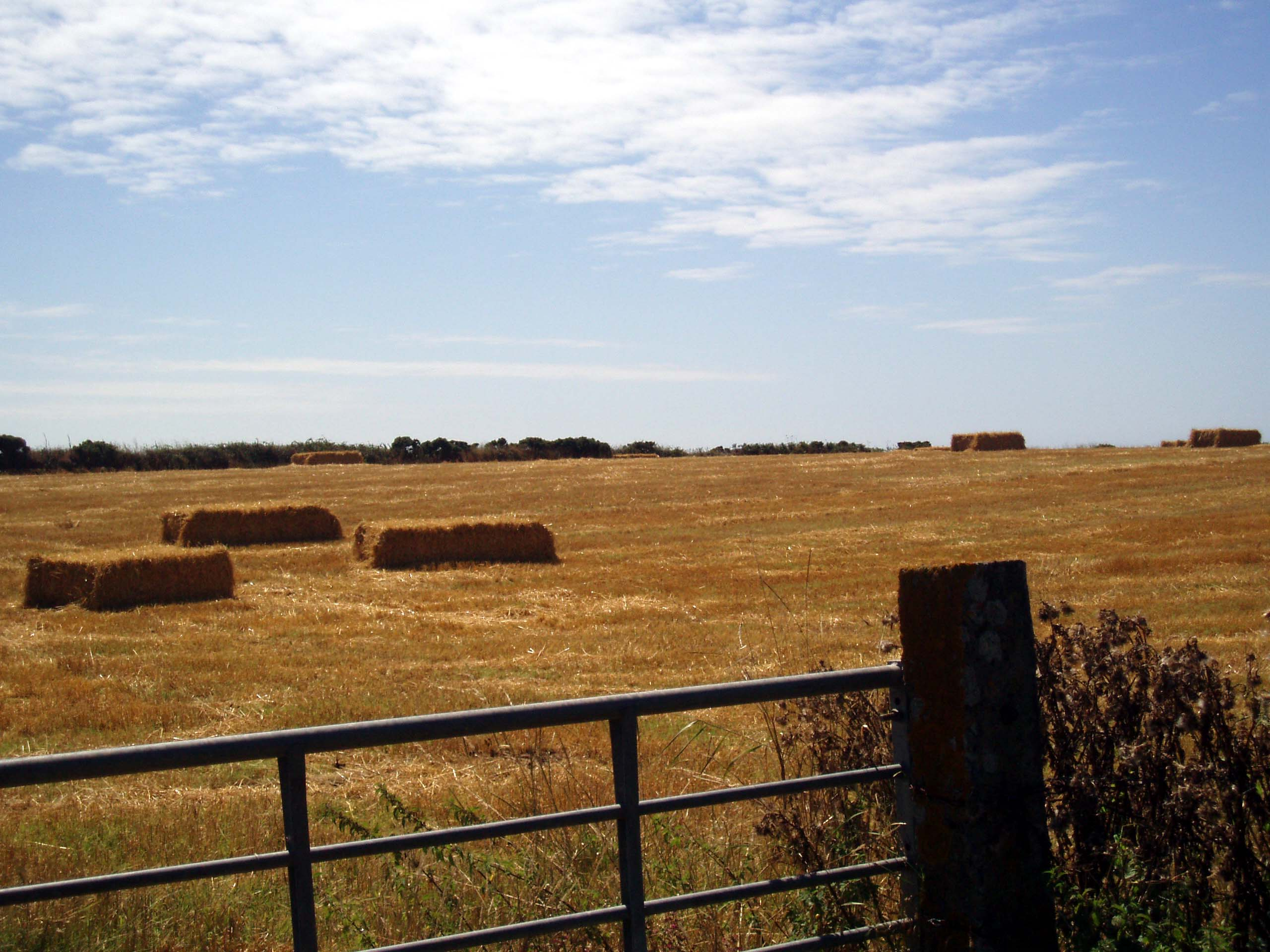 Farmland cut for hay taken near St Buryan